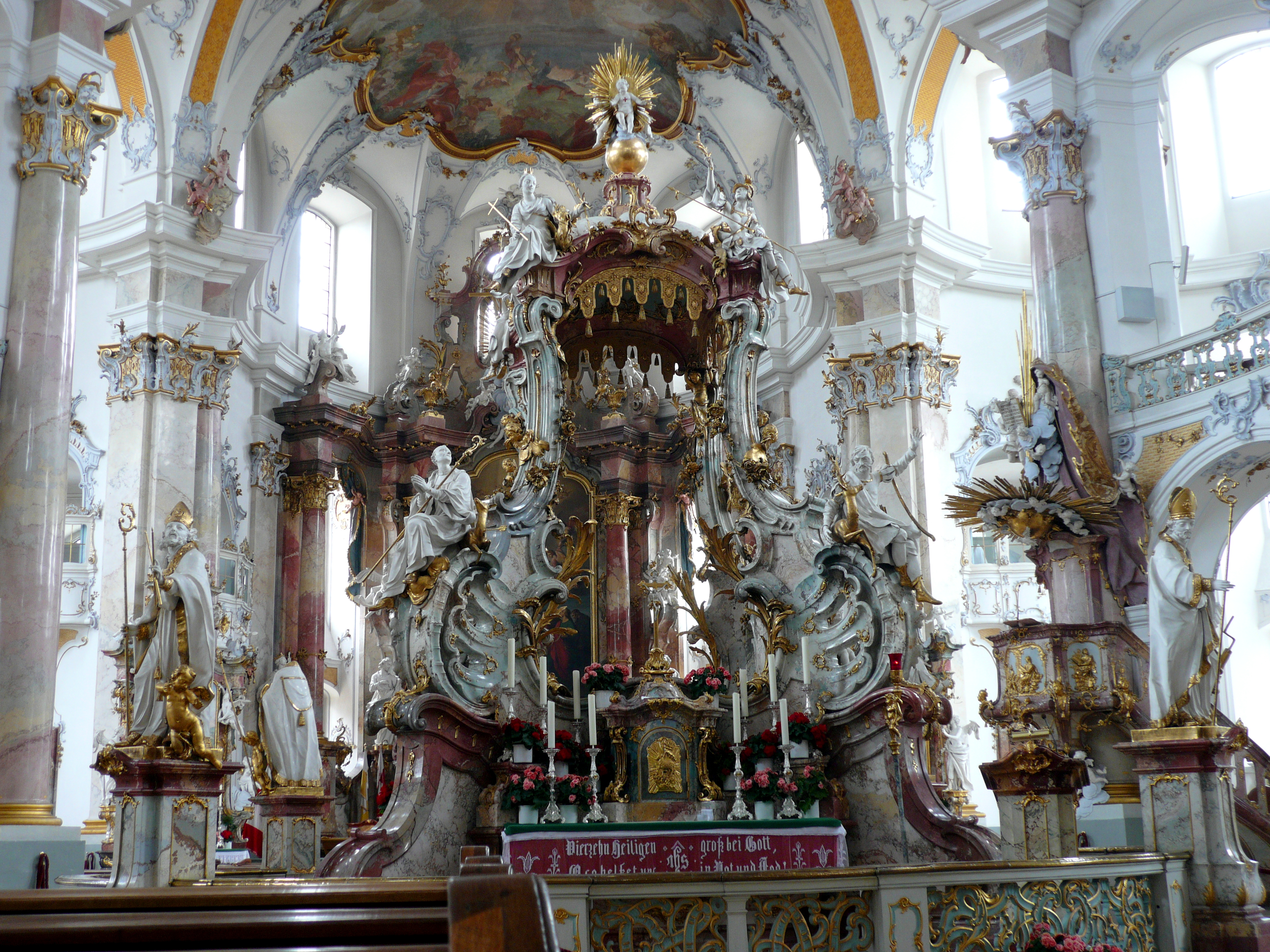 Basilica of Vierzehnheiligen, Gnadenaltar